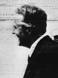 British Minister to Uruguay, Mr E Millington-Drake in Montevideo, upon arrival of Admiral Harwoodin the cruiser HMS AJAX after the Battle of the River Plate and the scuttling of the ADMIRAL GRAF SPEE.